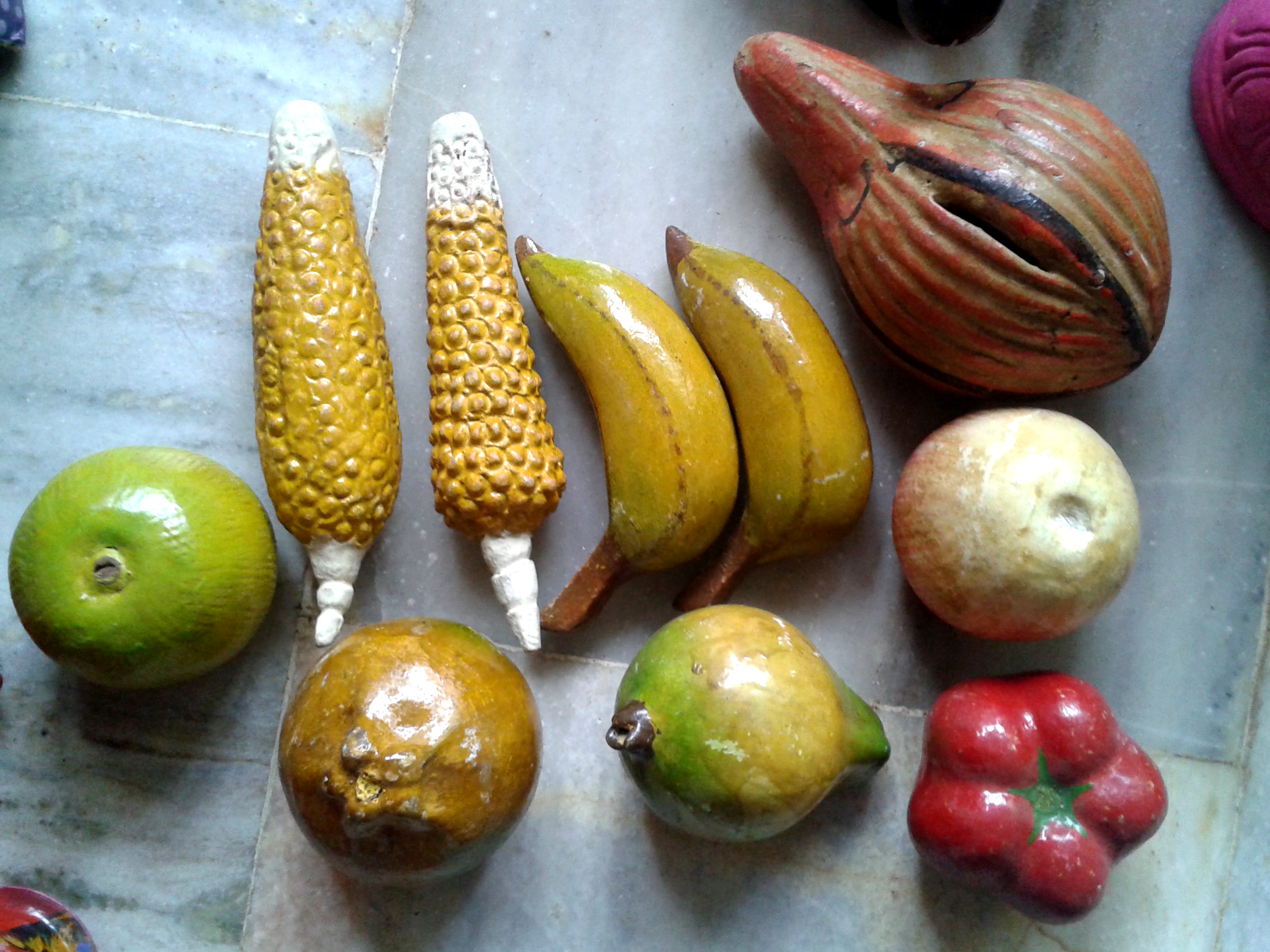 Wooden Nirmal Toys at Hyderabad